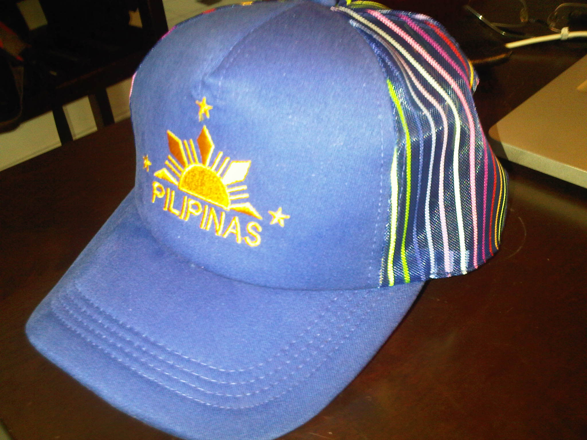 A "Jejecap," worn frequently by Jejemons.